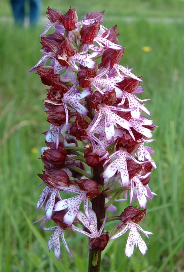 Orchis purpurea, Orchis pourpre, Auberive.